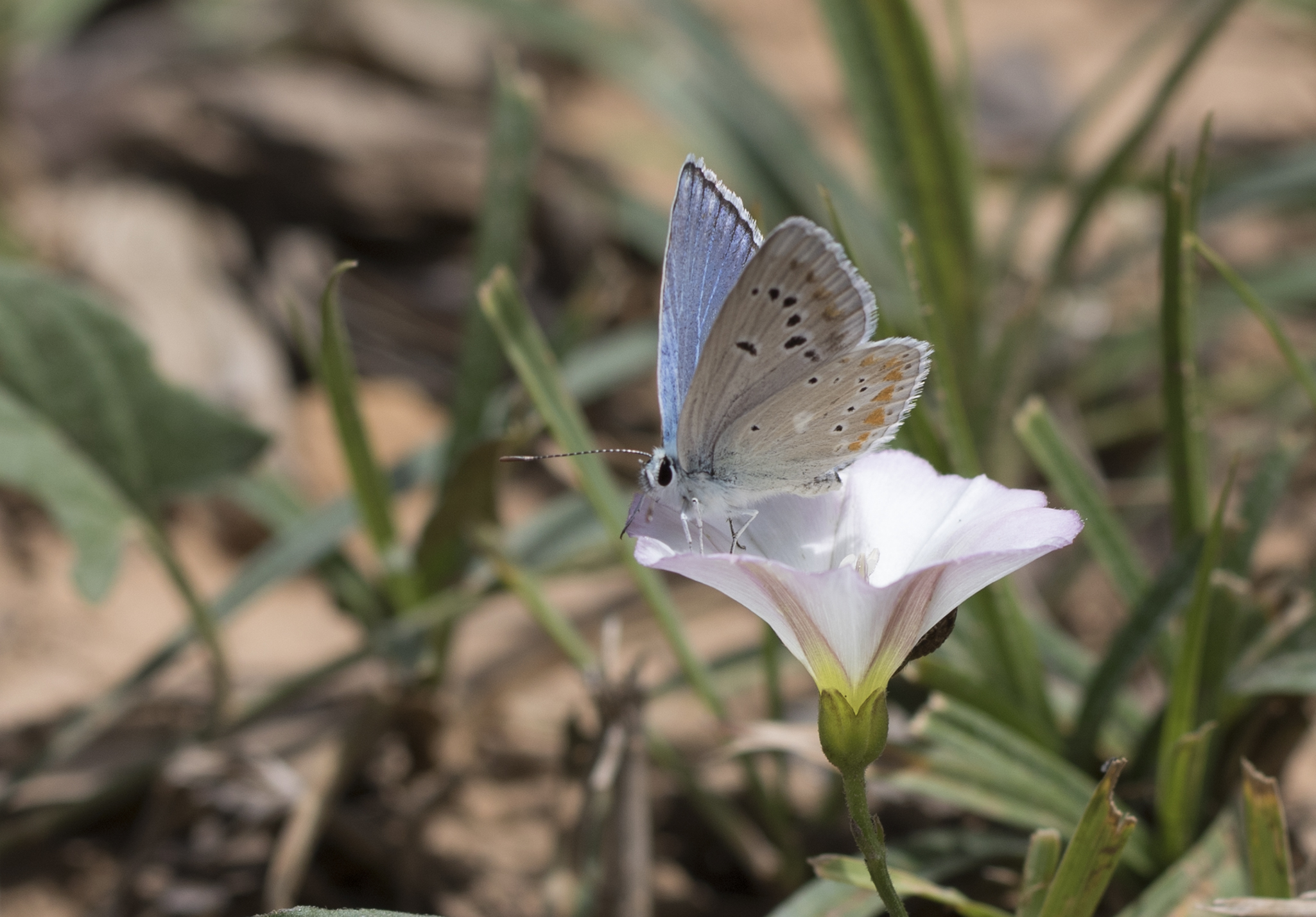 A male specimen of Turquoise Blue (Polyommatus dorylas). Cöbük Forest, Saimbeyli - Adana, Turkey.